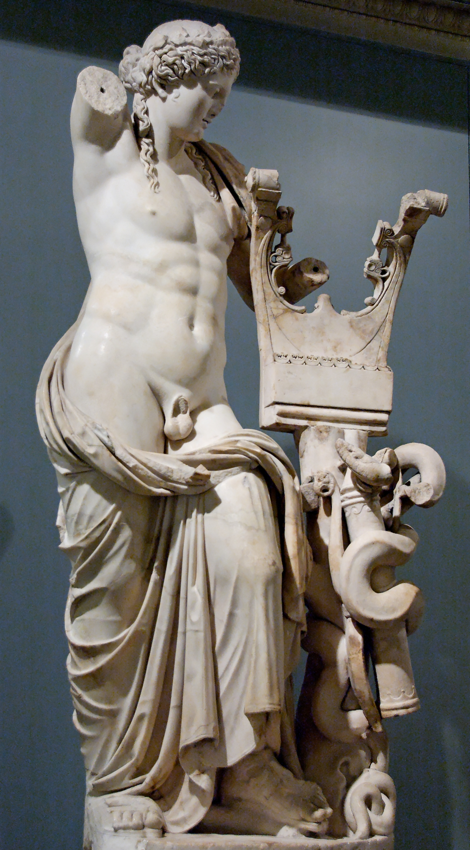 Apollo kitharoidos (holding a lyre). Marble, Roman artwork, 2nd century CE, influence of Hellenistic statuary of the 2nd century BC. From the Temple of Apollo at Cyrene (modern Libya).